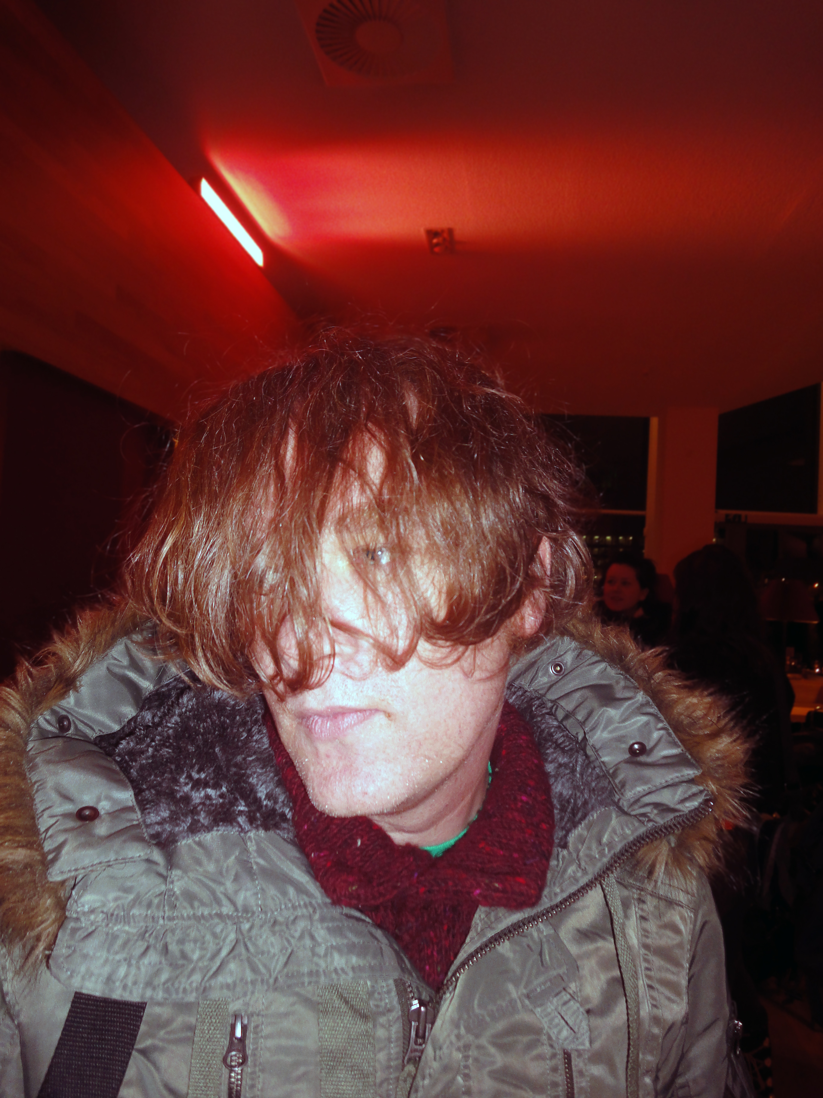 Phil Collins (artist) at the IFFR 2013, where he was on the tiger shorts jury